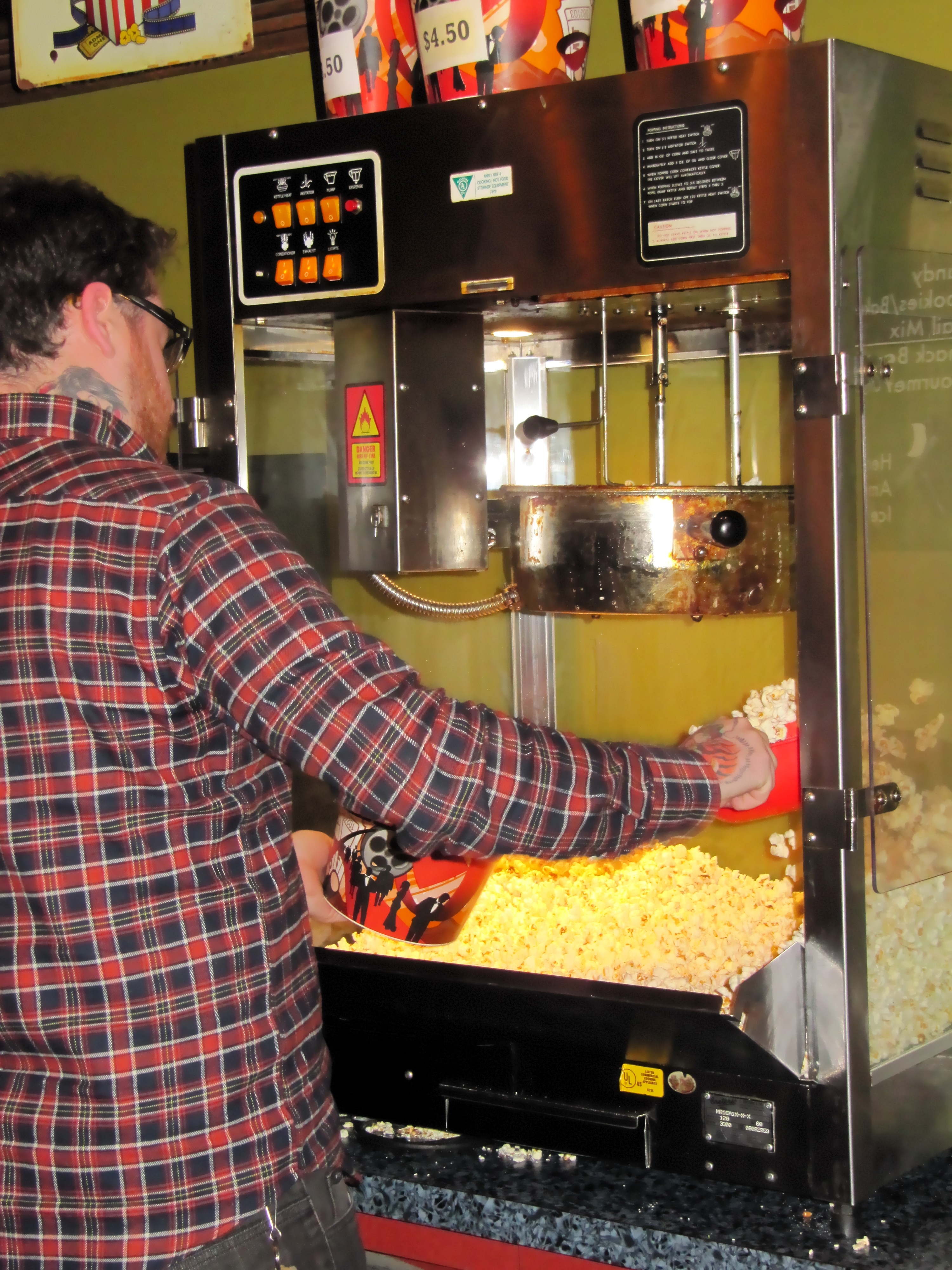 Photo of heavily tattooed male serving popcorn in the lobby of Coolidge Corner Theatre in Brookline, Massachusetts